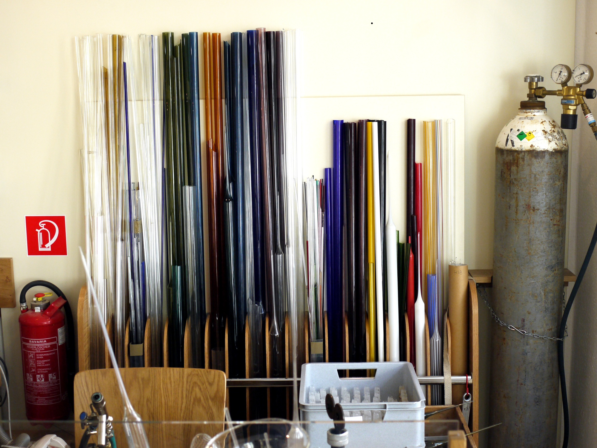 Glassblowing shop for art glass.